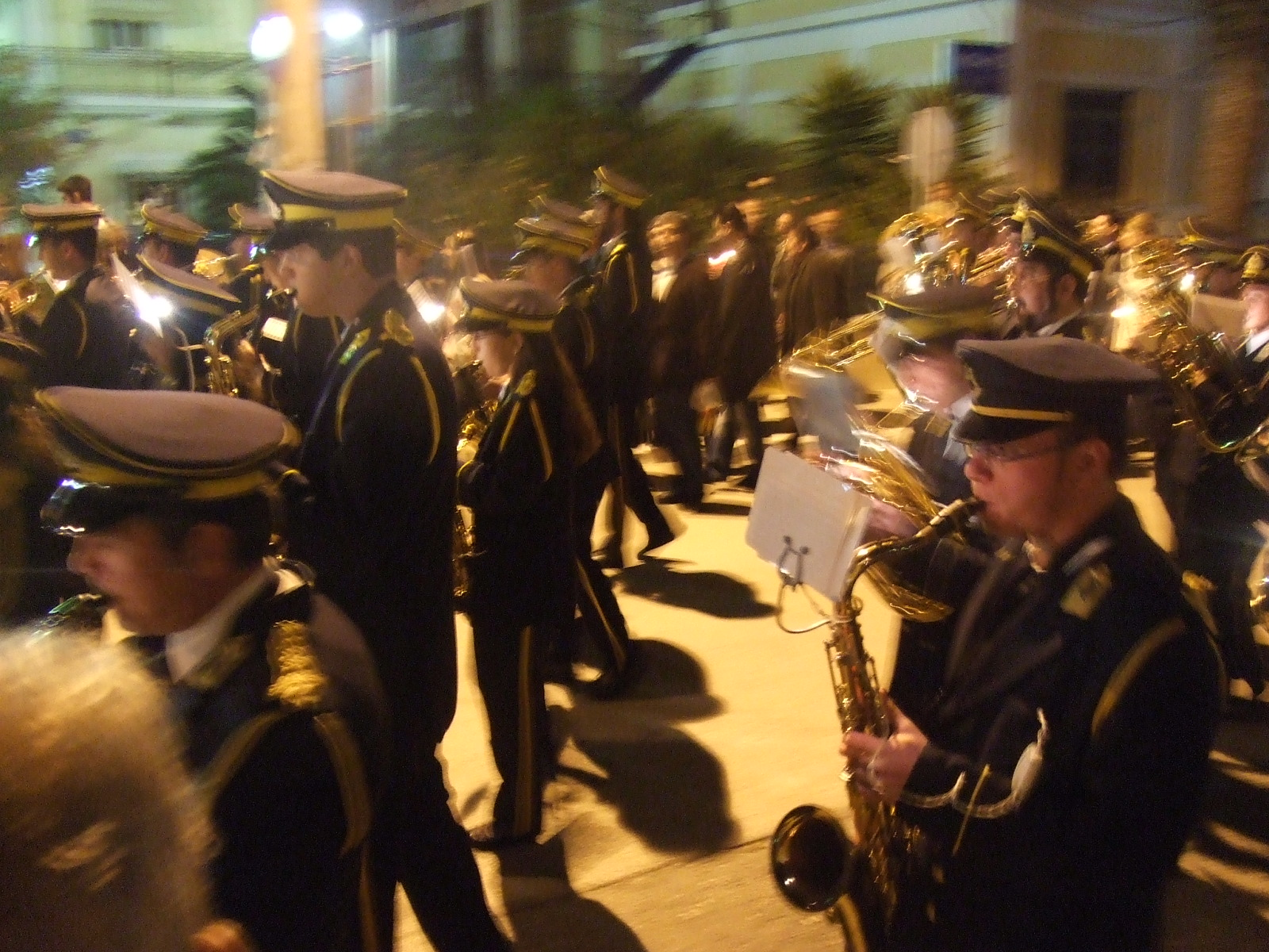 The "Lixouri Philharminic Orchestra 1836" during Easter 2007 on the Main Square of Lixouri Kefalonia.